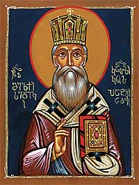 Melkisedek I of Georgia, third Catholicos-Patriarch of All Georgia (1010-1033)